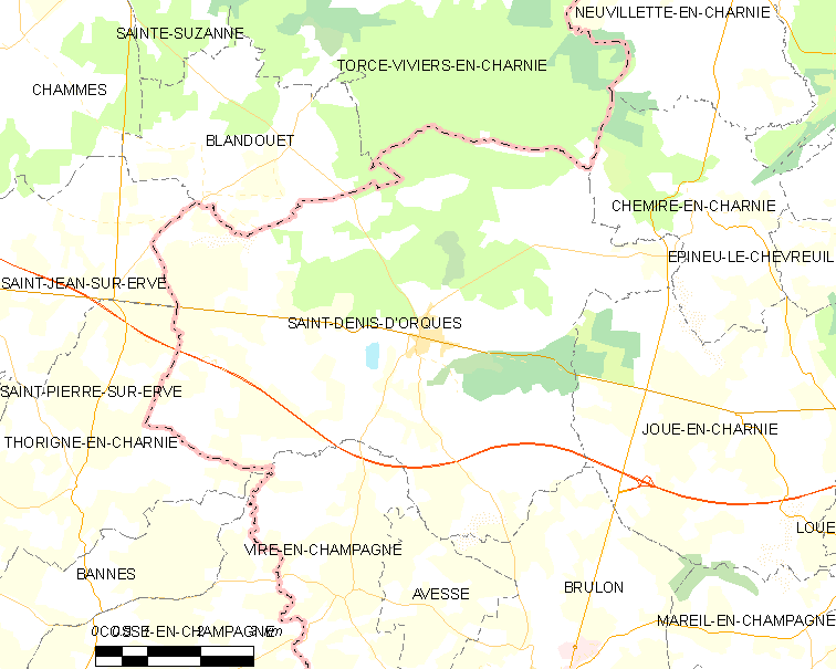 Map of French municipality